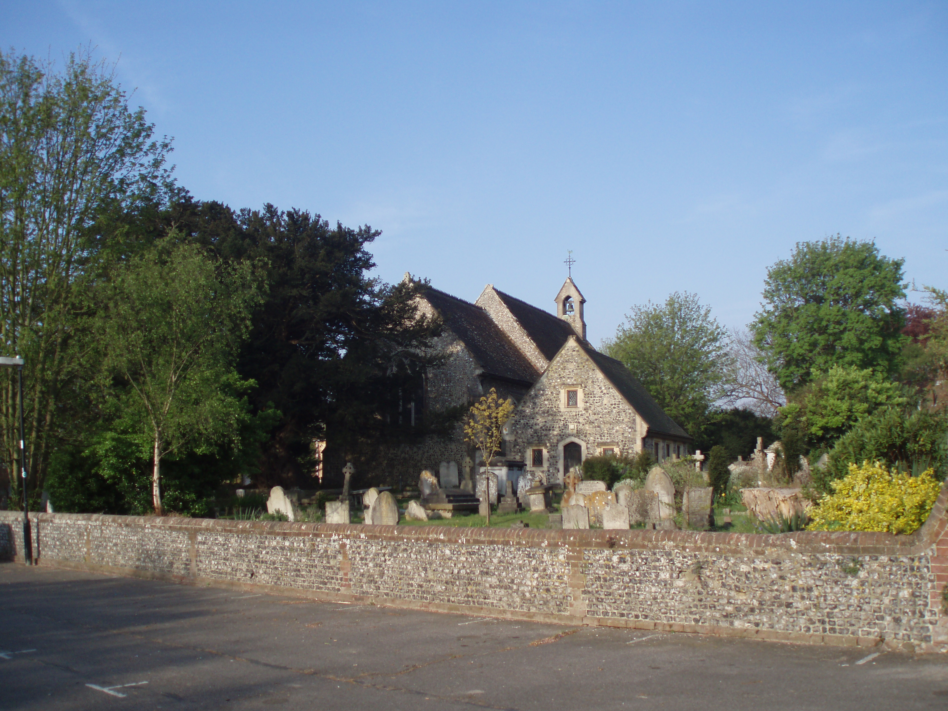 Photo taken by M.Eyre 21st April 2007